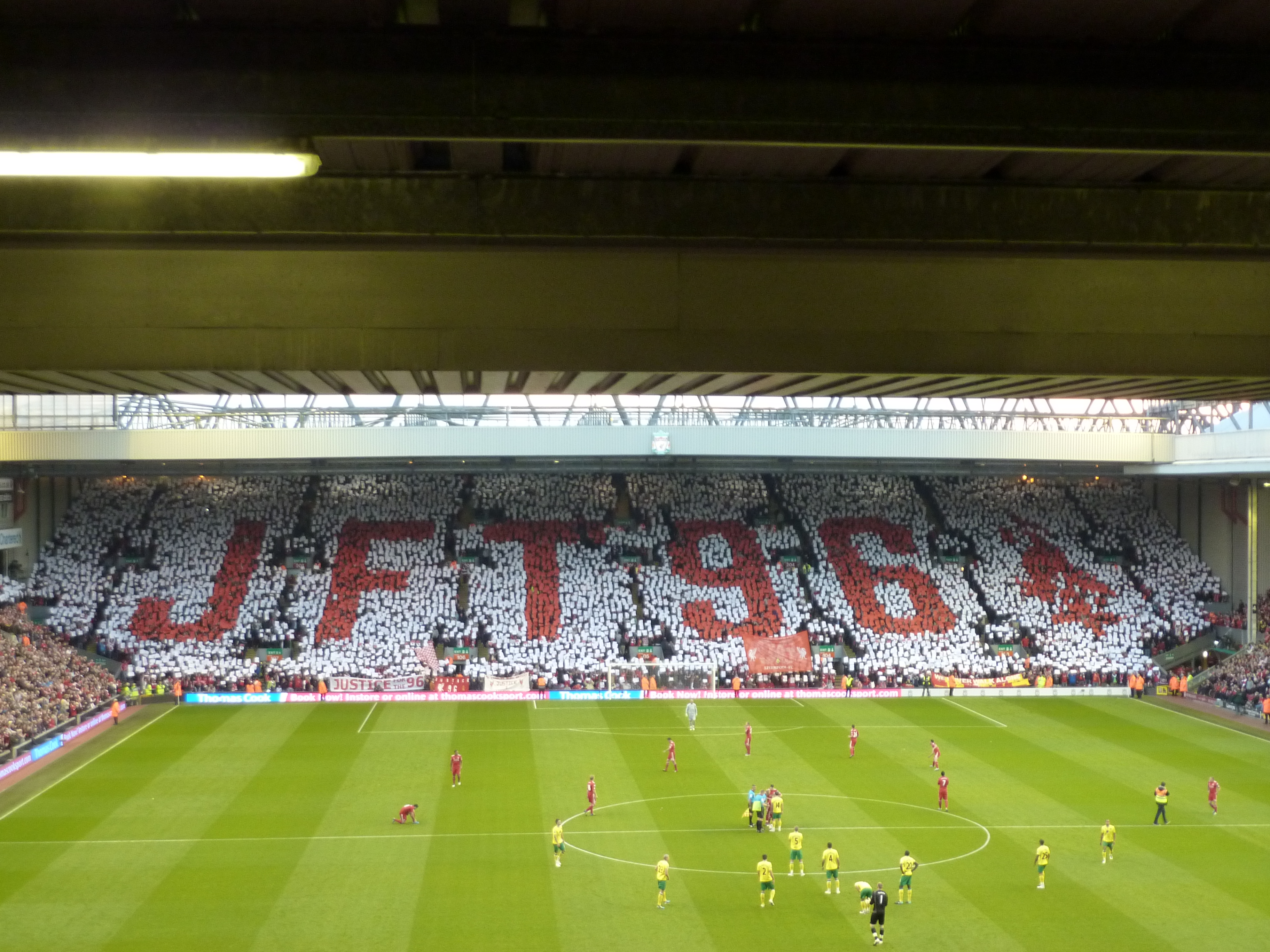 The bereaved families, survivors and supporters are still campaigning for justice for the 96 people who died at Sheffield Wednesday's Hillsborough football ground on 15th April 1989. This photograph shows the Kop,just before kick-off at Liverpool's match against Norwich on Saturday 22nd October, 2011.